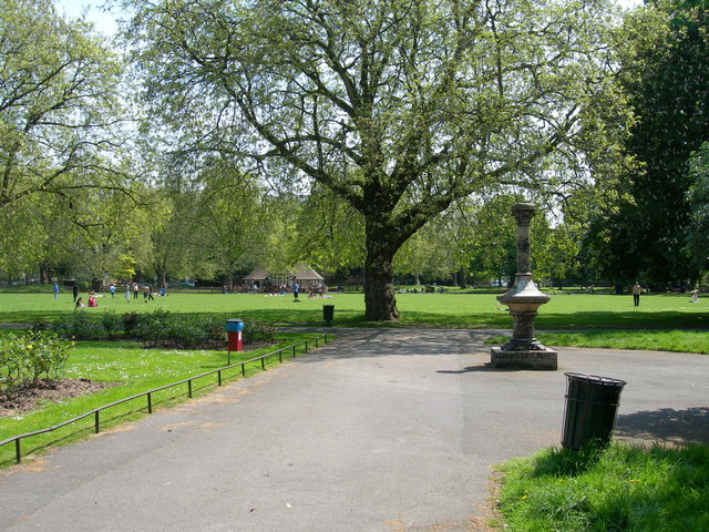 Kennington Park, SE11. Taken near the gate at Kennington Park Road.